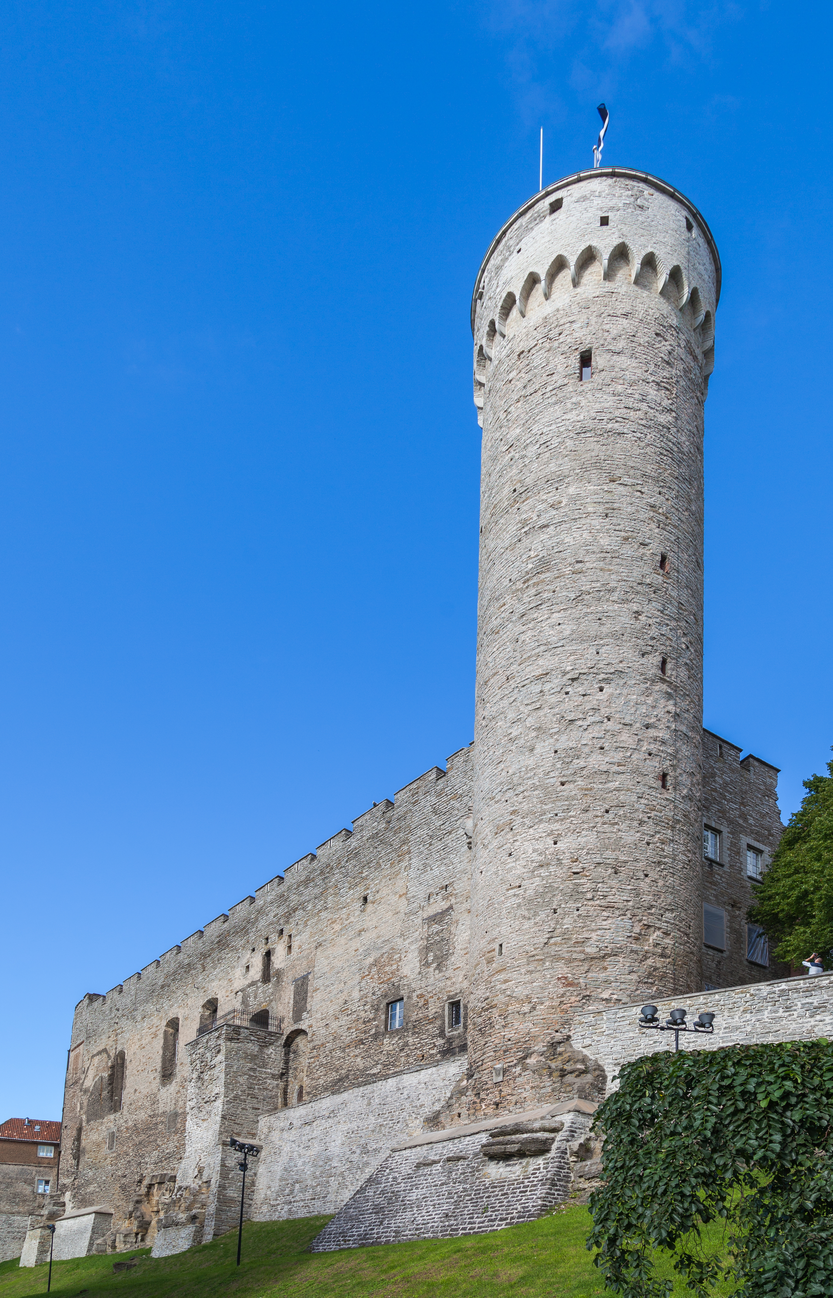 Pikk Hermann, Toompea castle, Tallinn, Estonia